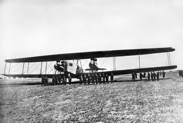 PictionID:43638885 - Catalog:16_004637 - Title:Zeppelin-Staaken R VI(Av) R.52/16. Aviatik built. Initially with four 300 h.p. Basse & Selve BuS.lVa engines. Completed May 1918. Ground tests on 7 May 1918 showed Basse & Selve engines not fully reliable. Four 245 Maybach Mb.lVa engines were installed. Acceptance flight on 5 June 1918. Delivered to Rfa 500 on 20 June 1918 with acceptance guaranteed on 28 June provided certain defects were corrected. At least one, but possibly all, of the second Aviatik-built R.VI series had modified fuselages. The cockpit was raised, moved farther to the rear and remained open. The front gun position was raised to the level of the upper longerons. Operational with Rfa 500. Crashed and burned on 11/12 August 1918 at Villers la Tour. Hptm. Erich Schilling and four members of the crew perished in the crash. Nowarra photo - Filename:16_004637.TIF - - - - - - - Image from the Ray Wagner Collection. Ray Wagner was Archivist at the San Diego Air and Space Museum for several years and is an author of several books on aviation --- ---Please Tag these images so that the information can be permanently stored with the digital file.---Repository: San Diego Air and Space Museum